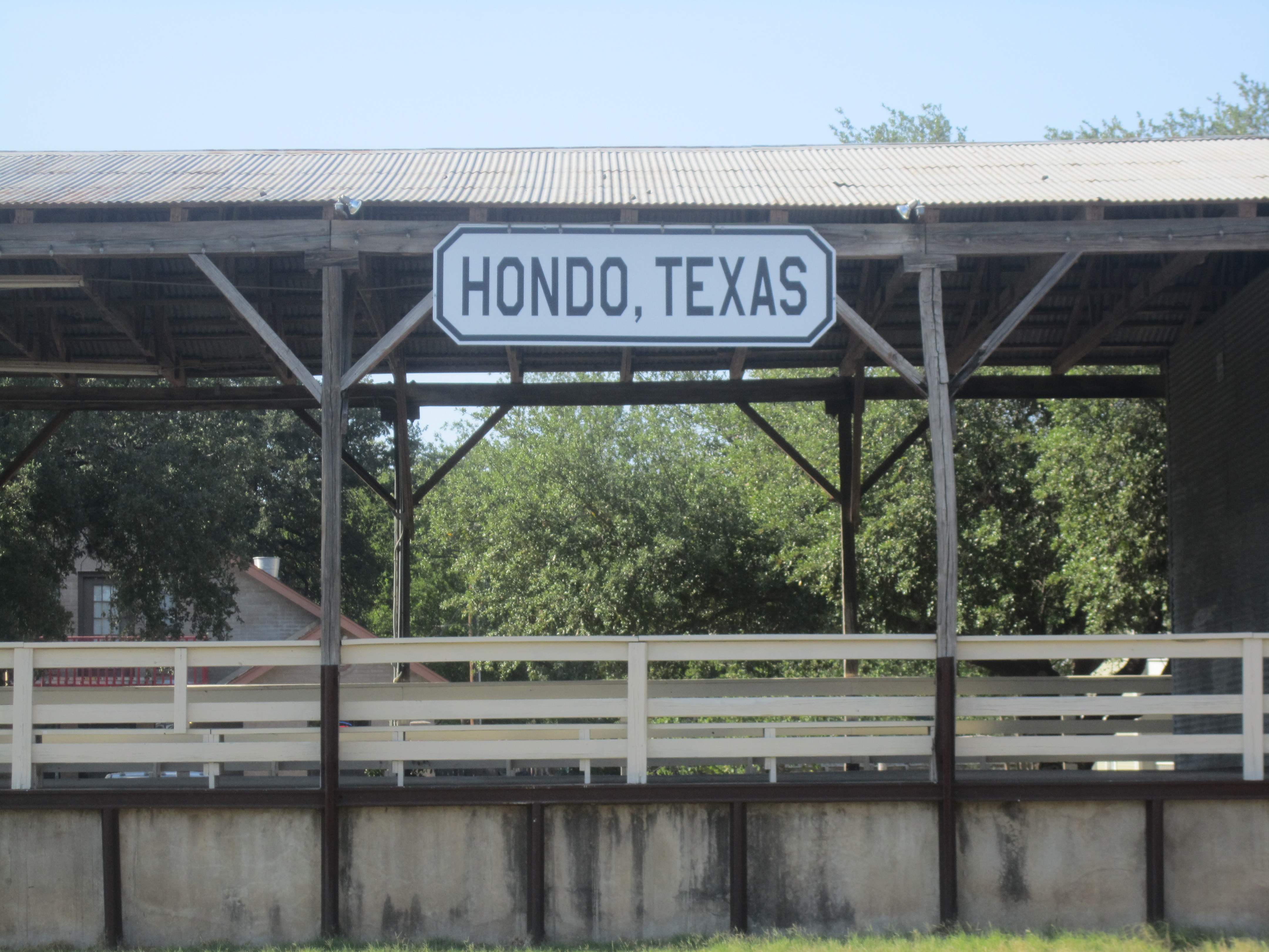 I took photo with Canon camera in Hondo, TX.